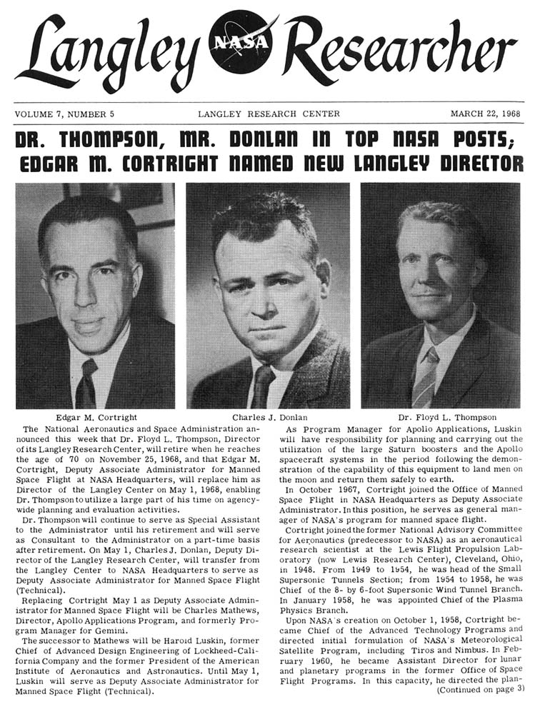 "Langley Researcher" periodical announcing appointment of Edgar Cortright as Director of NASA's Langley Research Center.